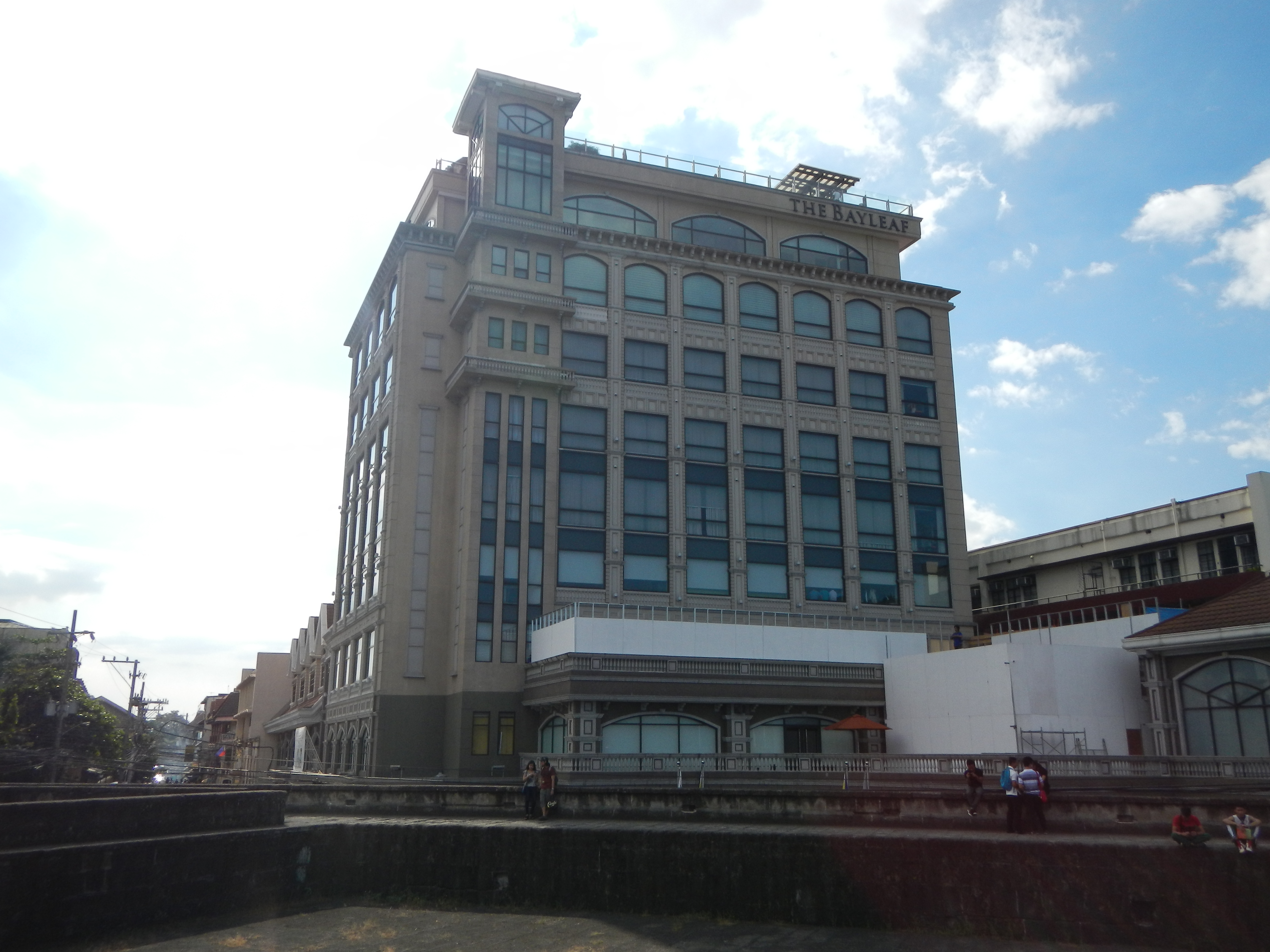 Upload Wizard photos of - the -The Bayleaf beside the Baluarte de Dilao or San Lorenzo, San Francisco, San Fernando de Dilao, or Dilao built in late 18th century restored since 1983, named after Spanish king Saint Ferdinand III of Castile [1] - Intramuros, Intramuros Golf Club, Intramuros City Walls - b) Gates of Intramuros [2] Intramuros entrance on Gen. Luna Street, the Bastion of San Diego constructed in 1644, the defensive walls of Intramuros and Muralla Street - Gate facing the south Puerta Real Gardens the original Real Gate (Royal Gate) was built in 1663 at the end of Calle Real de Palacio now General Luna St. and was used exclusively by the Governor-General for state occasions was located west of Baluarte de San Andres and faced the old village of Bagumbayan.